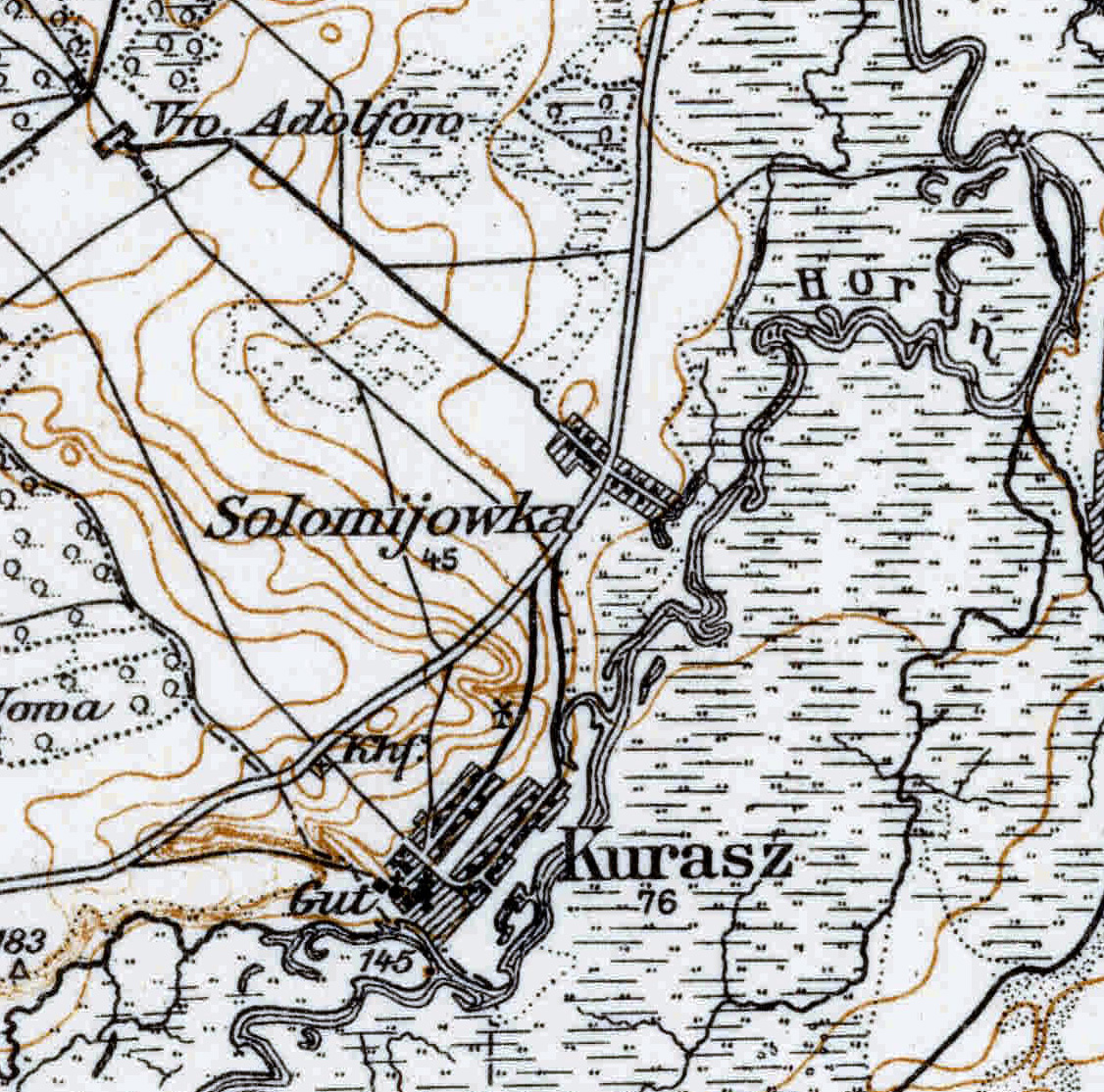 Solomiivka on the map "Karte des Westlichen Russlands", T 36, 1917. According to Kujawsko-Pomorska Digital Library the map is in the public domain.